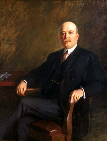 Oil painting of Minnesota Governor Winfield S. Hammond Painter: Nicholas Richard Brewer (1857-1949) Art Collection, oil 1915 Location no. AV1996.9.19 Negative no. 83164